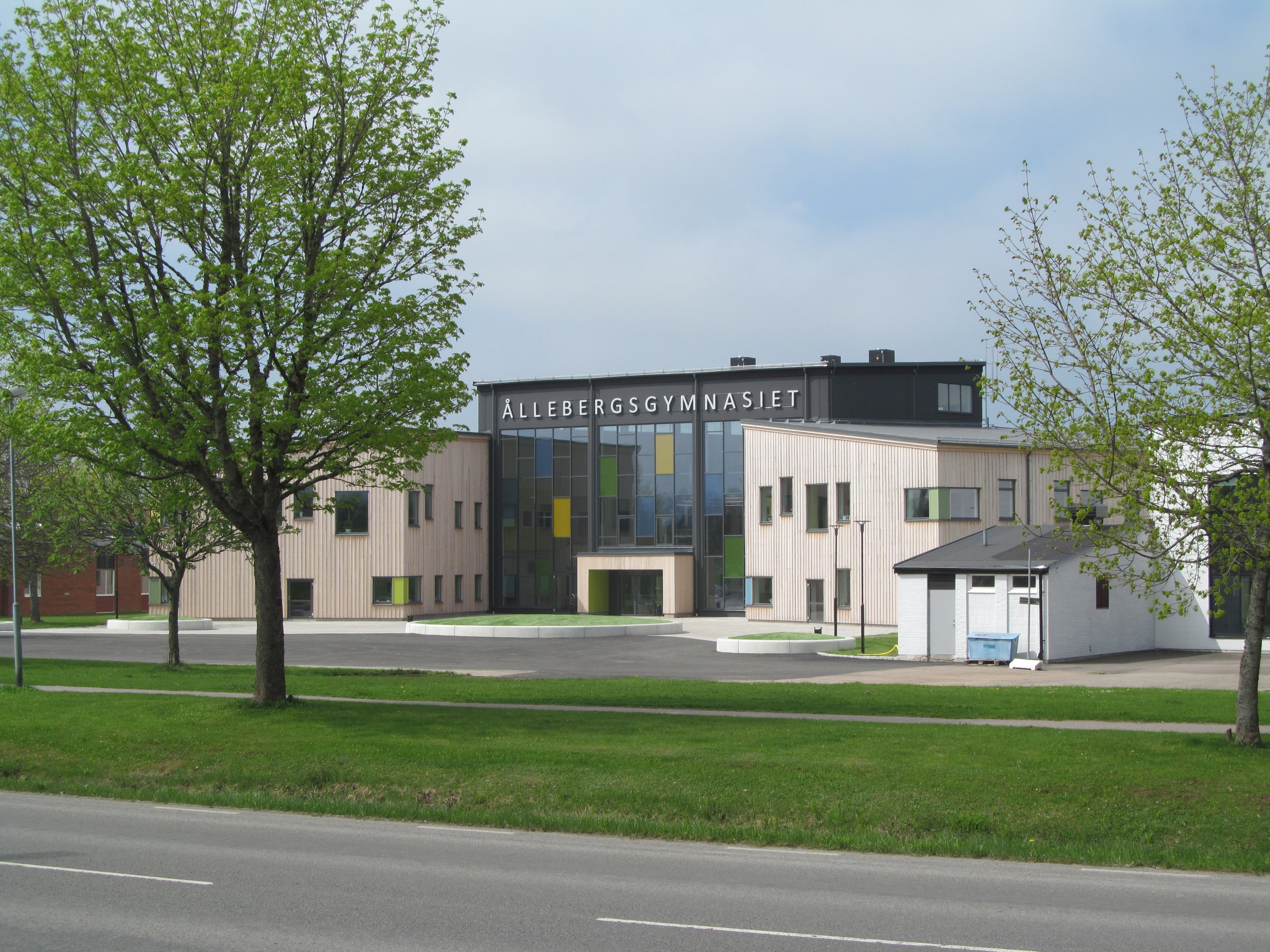 Main building of the secondary school, Ållebersgymnasiet, in Falköping. The building was opened in the beginning of 2013.